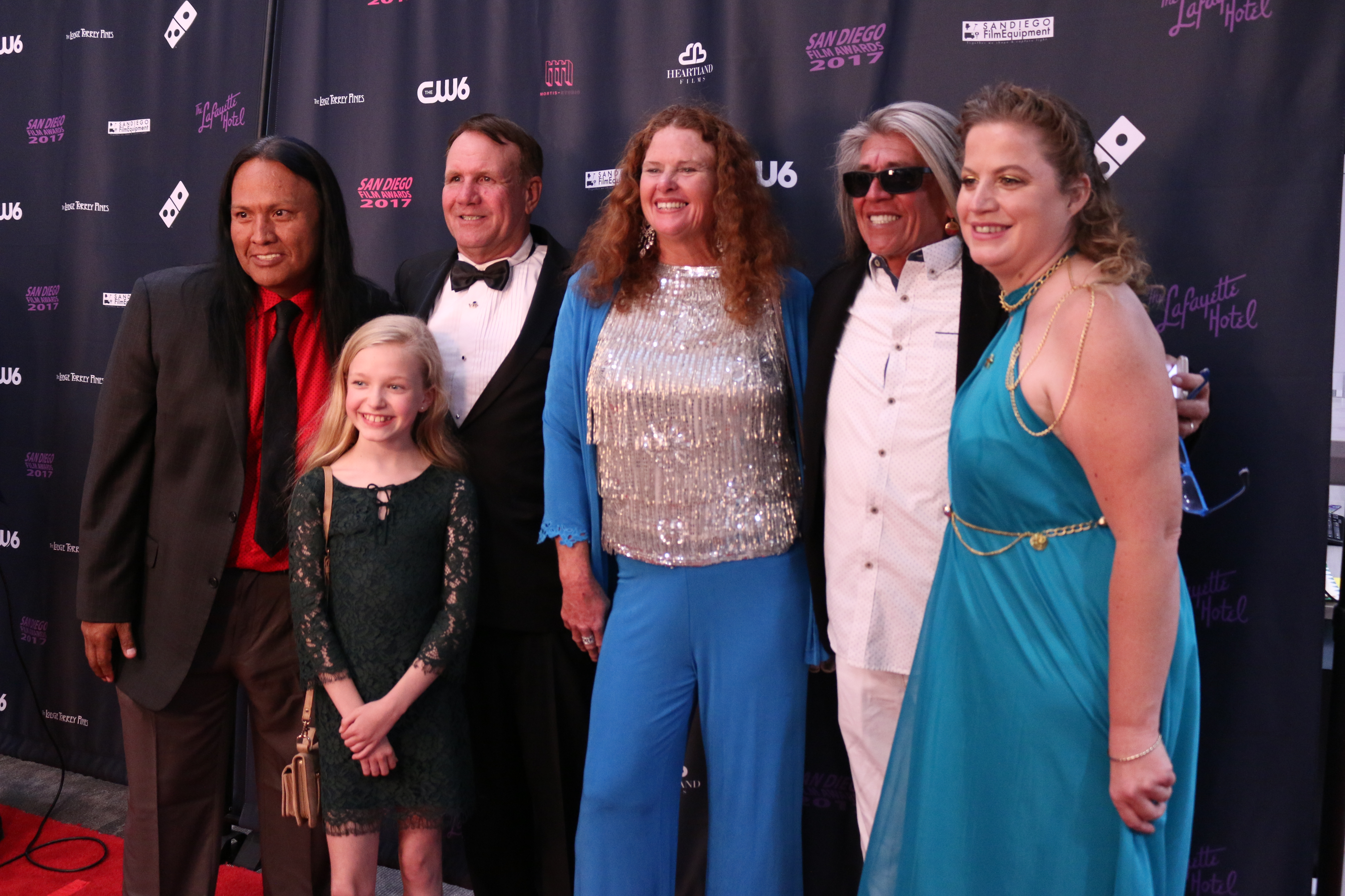 Actor Arthur Redcloud, Filmmaker Larry Poole, Film Consortium President Jodi Cilley and others at the VIP Red Carpet for 4th annual San Diego Film Awards on April 2, 2017.